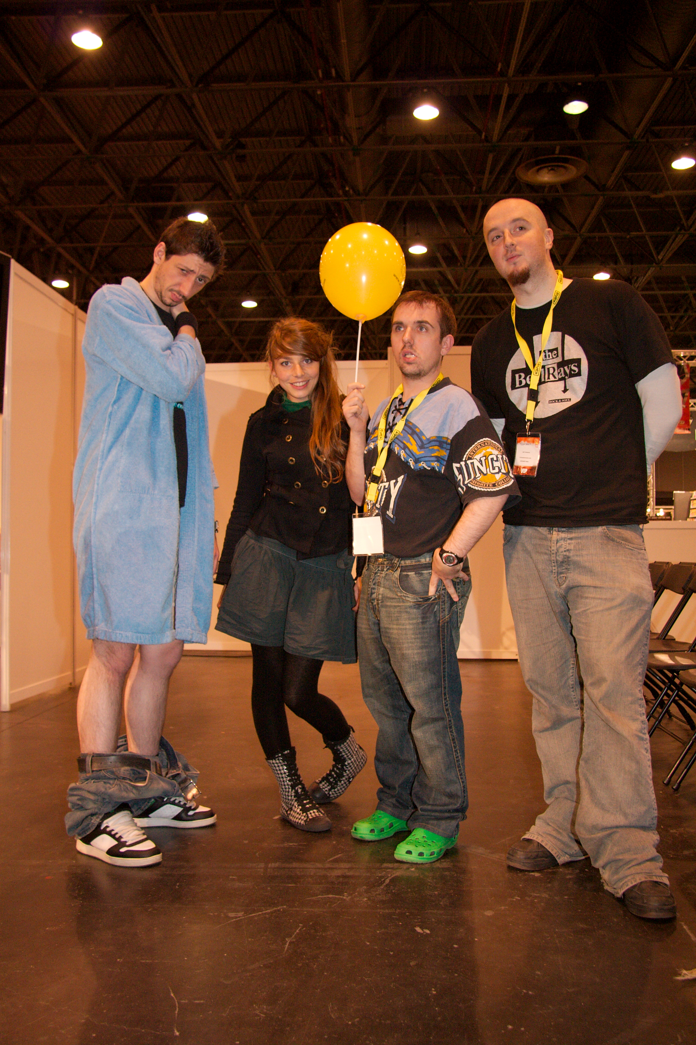 Autograph session with the cast of Nerdz at Chibi Japan Expo 2007 (Paris, France).